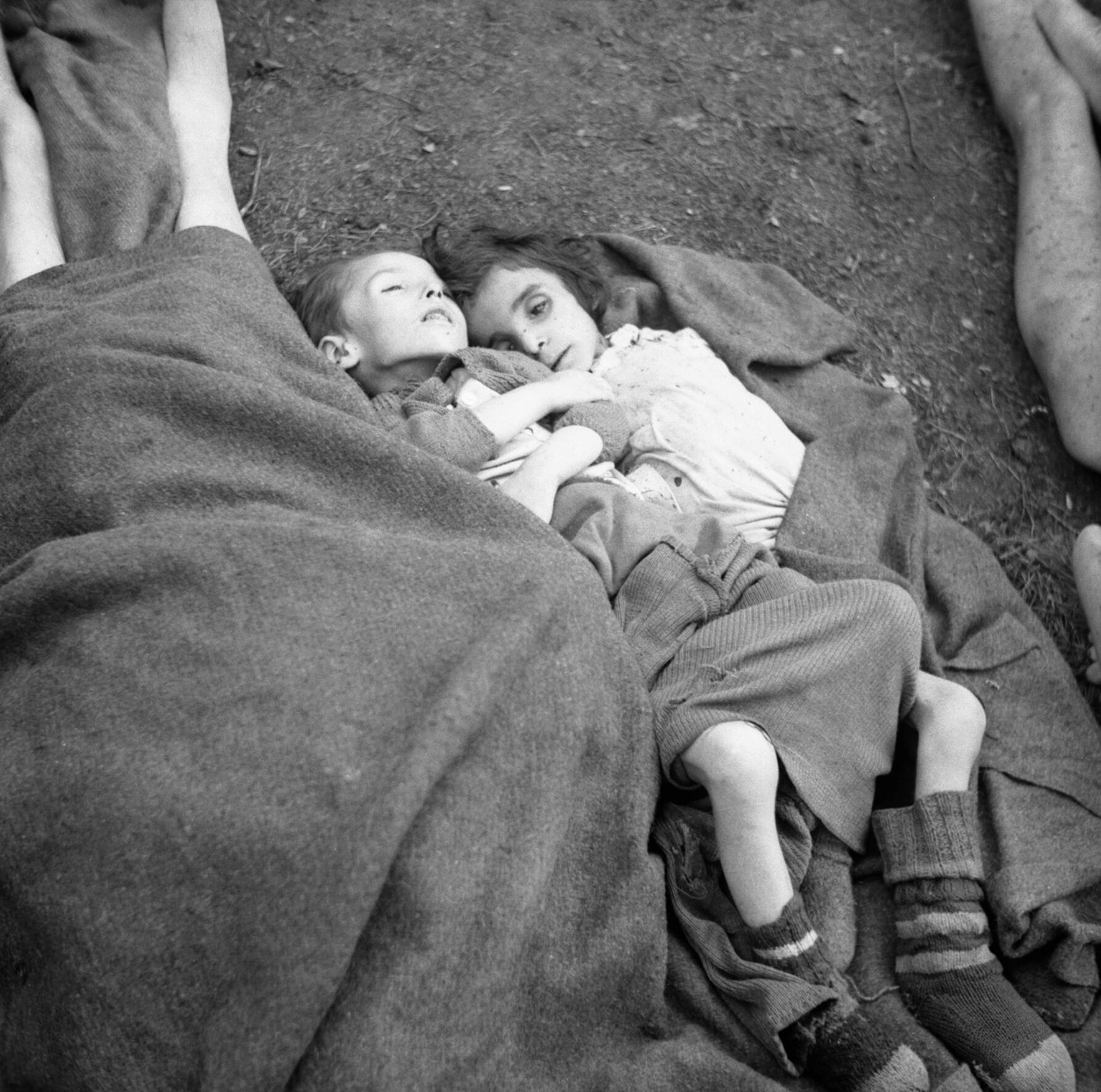 The Liberation of Bergen-belsen Concentration Camp, April 1945 The bodies of two dead children await burial